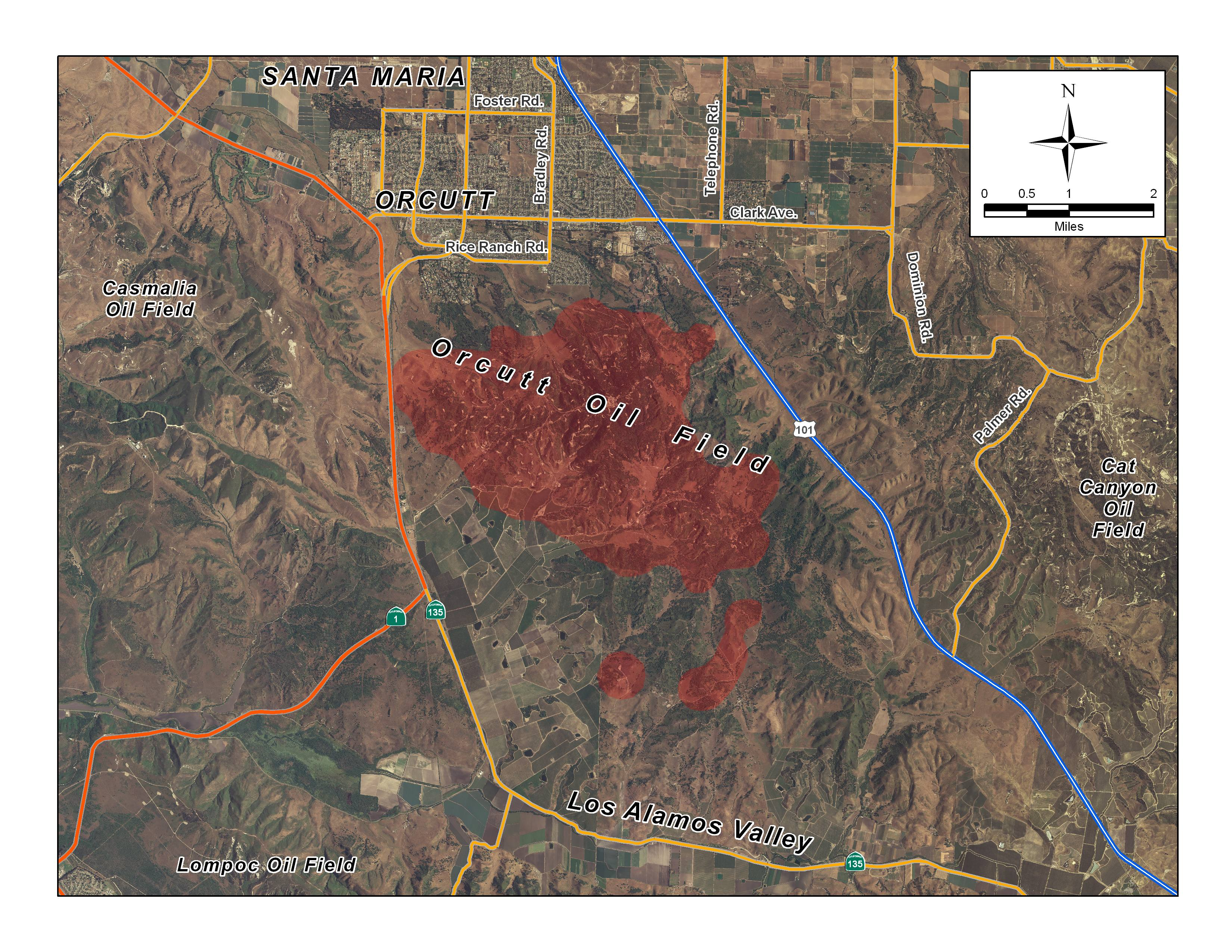 Detail of Orcutt field; by self in ArcGIS 9.3; GFDL/equiv